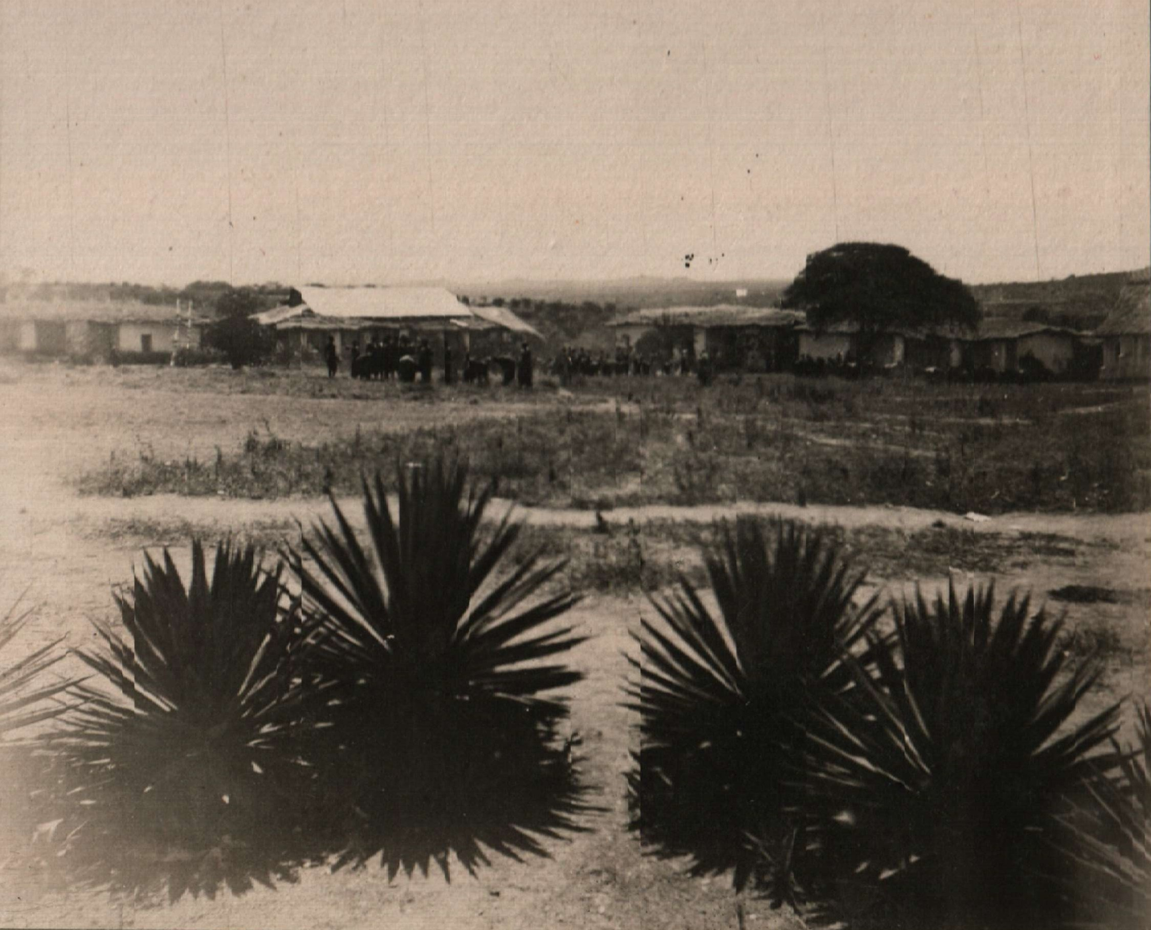 Photos of Africa (1909-1913). Mkalama, Tanzania